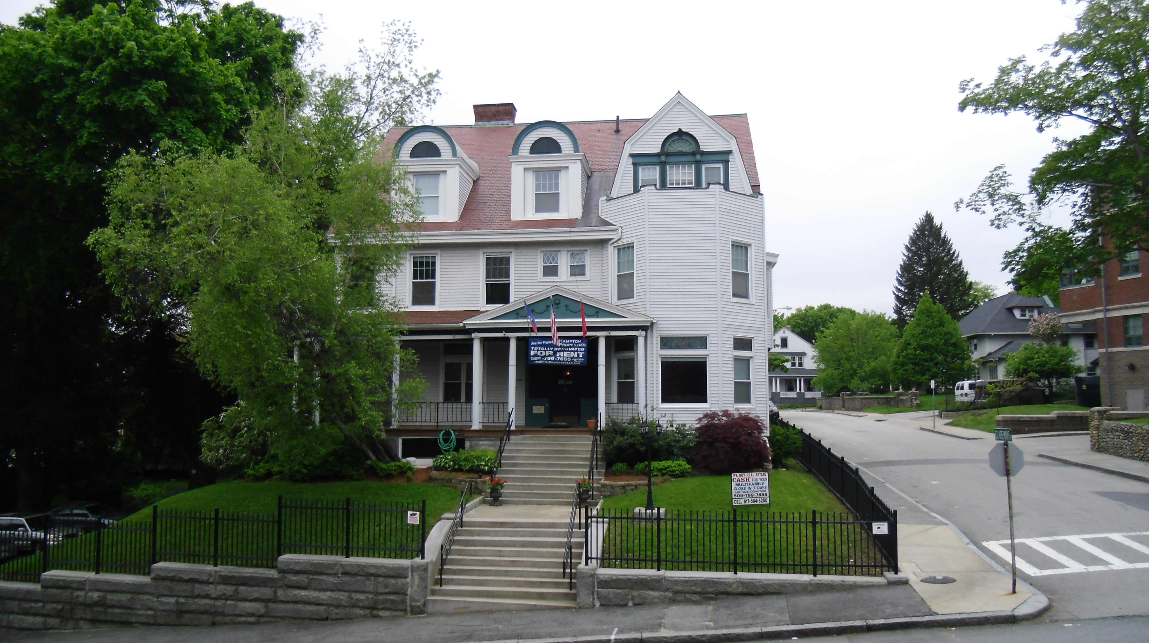 The John Legg House, located at 5 Claremont St in Worcester, MA, USA. It was built in 1896.